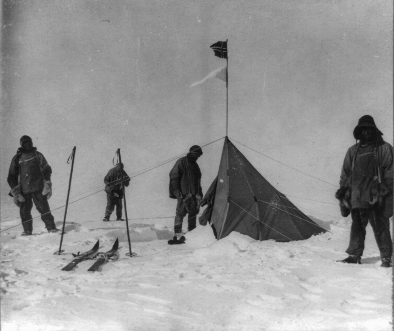 Original caption: “Members of the Terra Nova expedition at the South Pole: Robert F. Scott, Lawrence Oates, Henry R. Bowers, Edward A. Wilson, and Edgar Evans.” Published in: The Great White South... / by Herbert G. Ponting, F.R.G.S. New York : Robert M. McBride & Co., 1922. Reproduction Number: LC-USZ62-8744